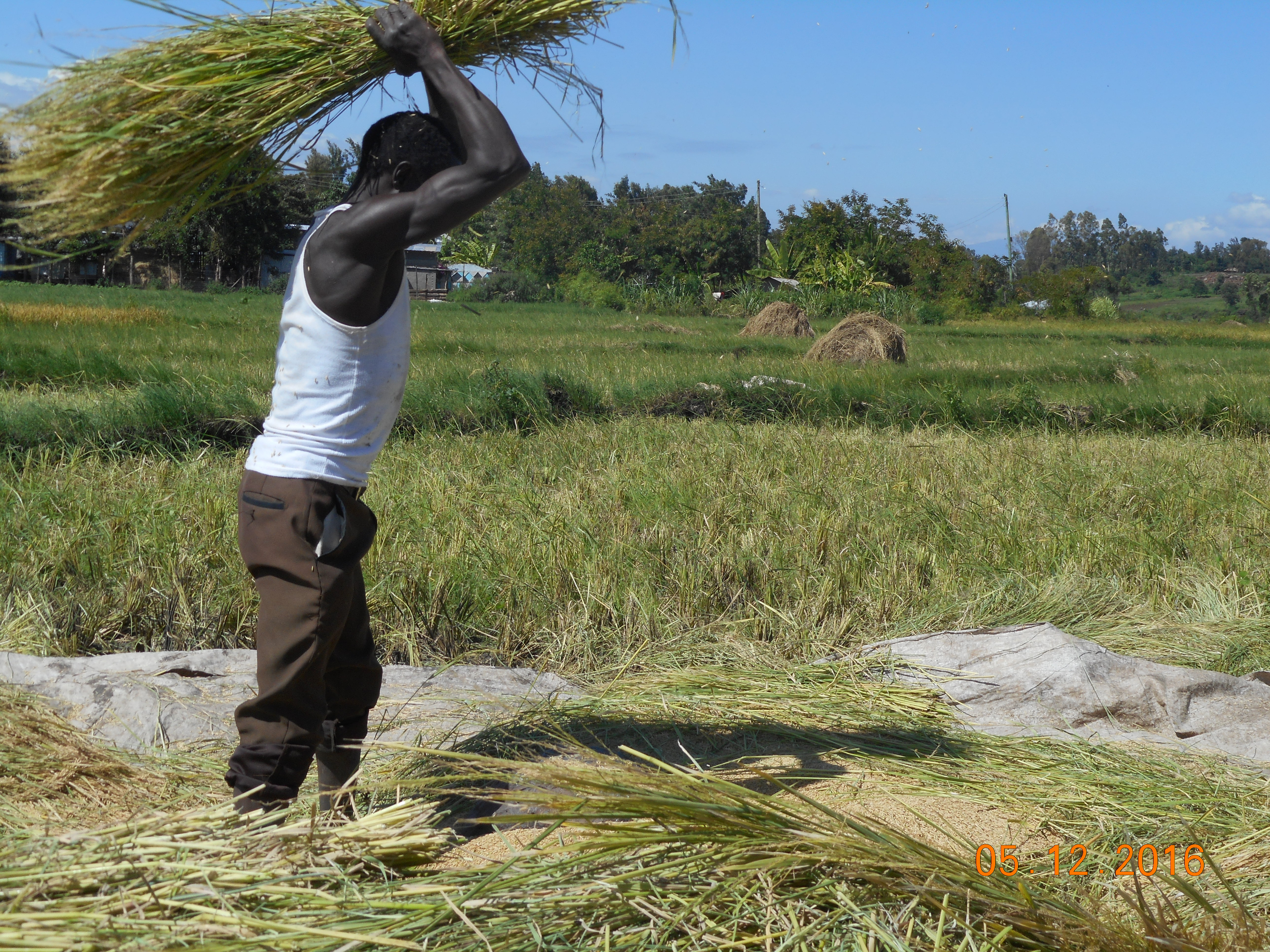 Man threshes rice in a paddy in Mwea, Kenya This is an image of "African people at work" from Kenya